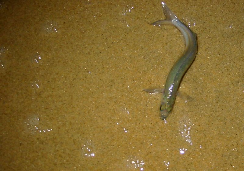 California Grunion (Leuresthes tenuis) on the beach in San Diego, California, USA.lone_grunion